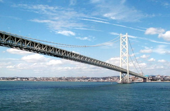 Updated image from this image at Japanese Wikipedia. The original is GFDL. Text on the Japanese Wikipedia text identifies User:Hamilton as the photographer and uploader. In this version, the contrast was adjusted, and the picture was cropped and rotated.